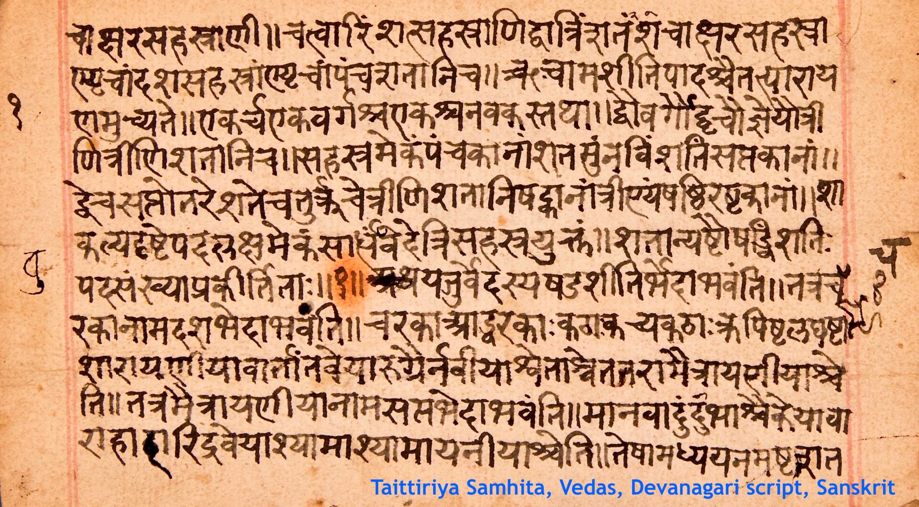 The samhita layers of the Vedas were composed between 1500 to 1000 BCE. These were orally transmitted for centuries, and likely written down sometime around the start of the common era. The above manuscript page is from the Taittiriya Samhita, in Devanagari script, Sanskrit language. This 19th-century document is shaped in the form of a palm leaf manuscript reminiscent of the heritage. The image is a part of endangered manuscripts preservation programme supported by Arcadia, a digitization initiative by Chinmaya International Foundation, with archival support provided by the British Library. This is a photo of the 2D historic manuscript. Wikimedia Commons PD-Art licensing guidelines apply.